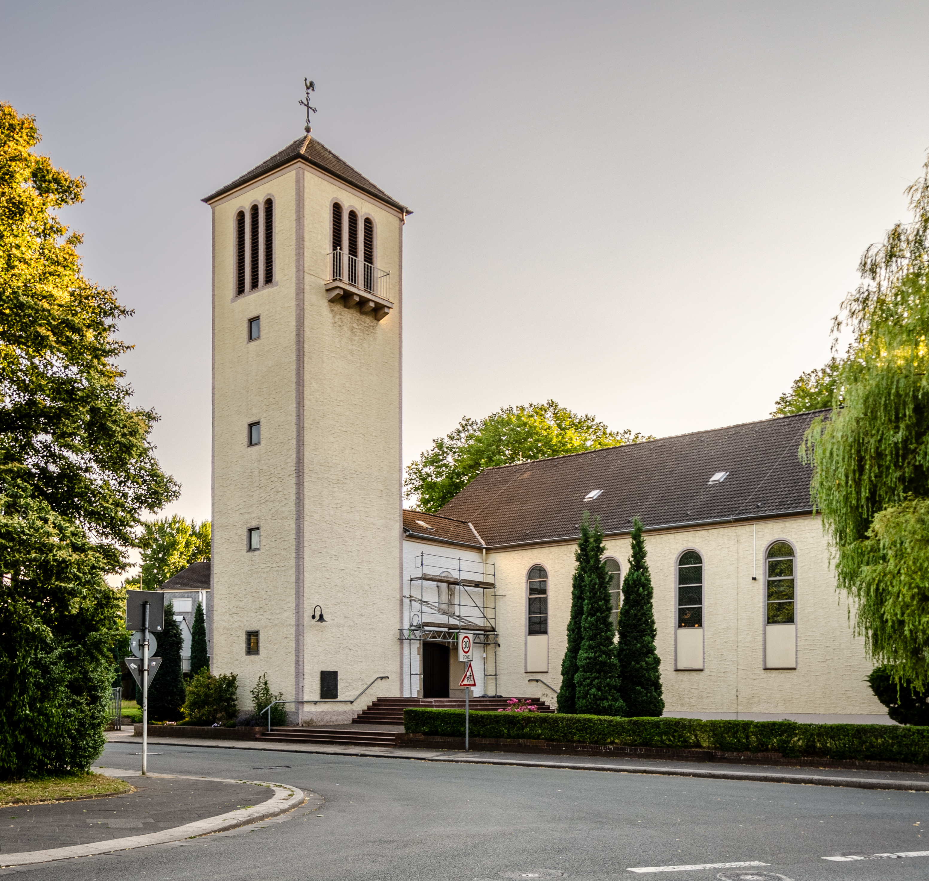 St. Bonifatius Church in Essen Bergeborbeck